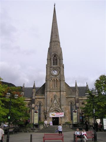 Church at Callander Used as a tourist office now.